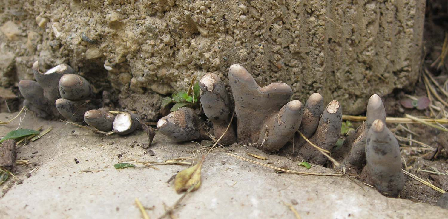 This is a row of xylaria polymorpha, or dead man's fingers. Most of these are a bit over a centimeter tall. The photo was taken in the beginning of July, in Wisconsin. It's in my garden, which was built over a tree stump.